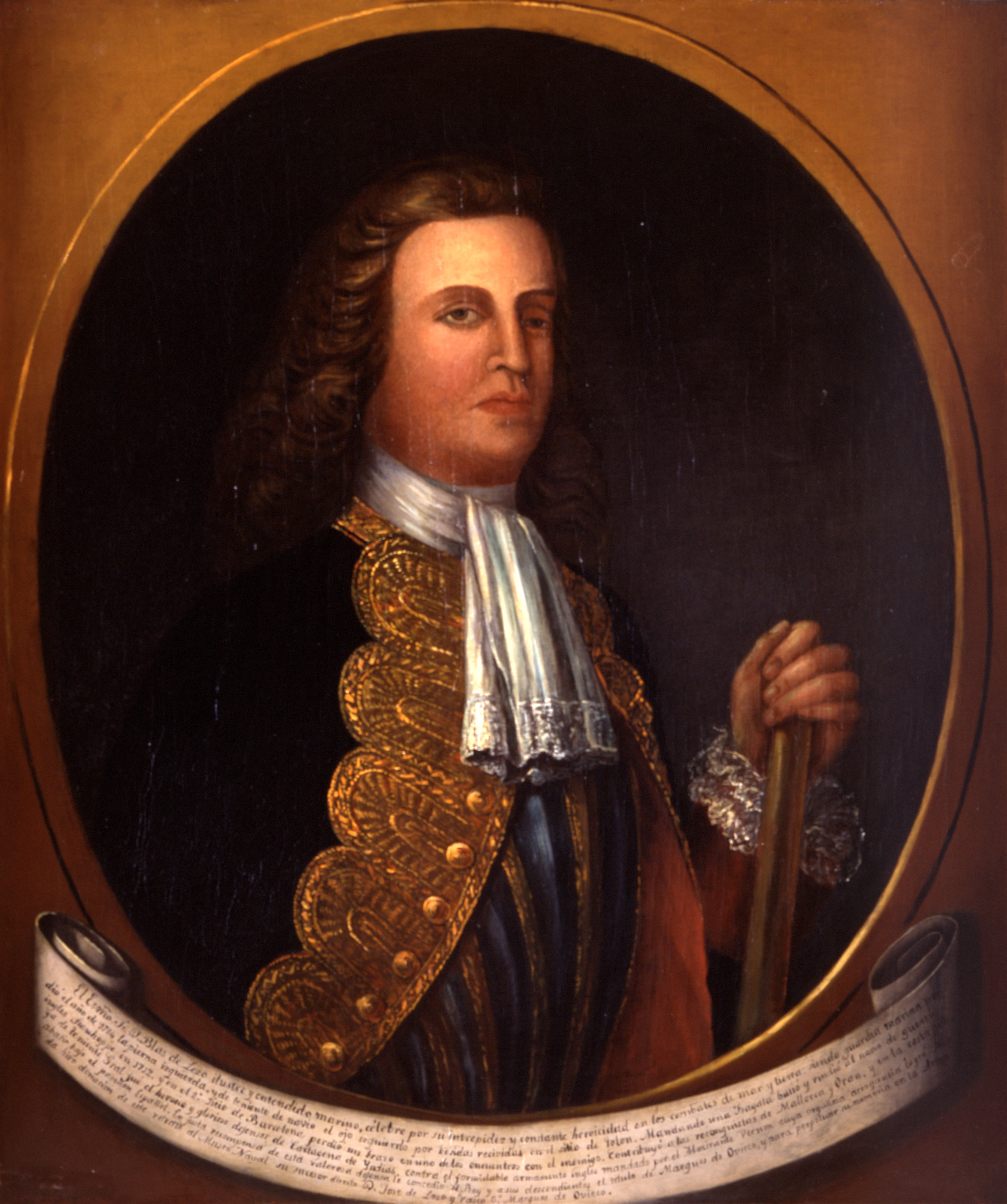 Blas de Lezo y Olavarrieta (1689–1741), admiral of the Spanish Navy.